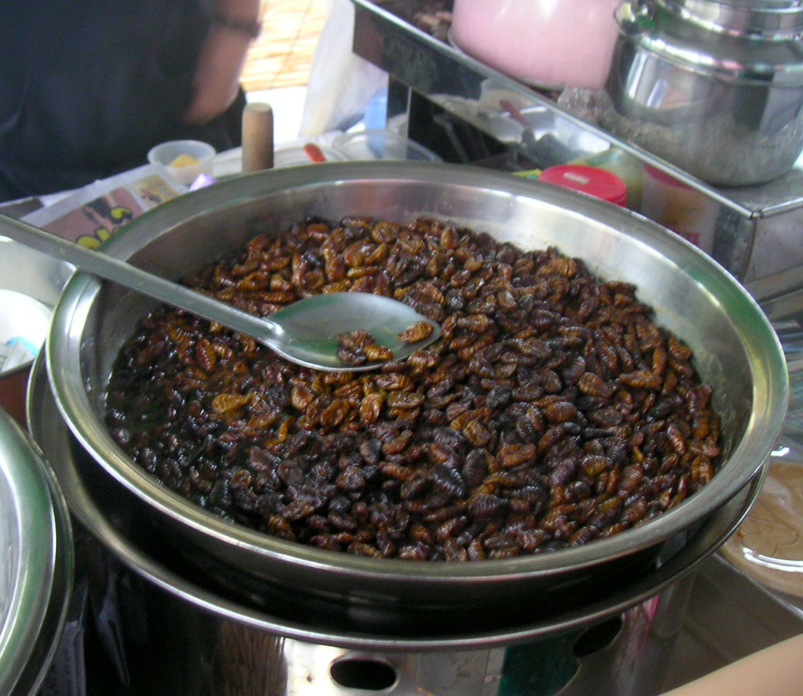 Beondegi (번데기) being sold on the street in a food stall.